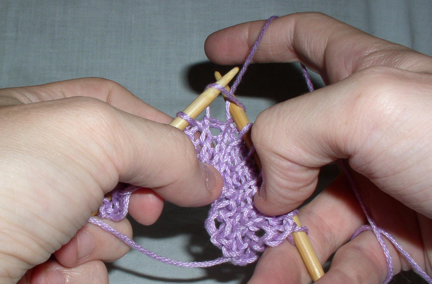 Step 5 of knitting (English or "right-hand" style): wrap yarn counter-clockwise around needle. Photo taken by me (of me) in August 2005. Fifth in a series (previous, next).